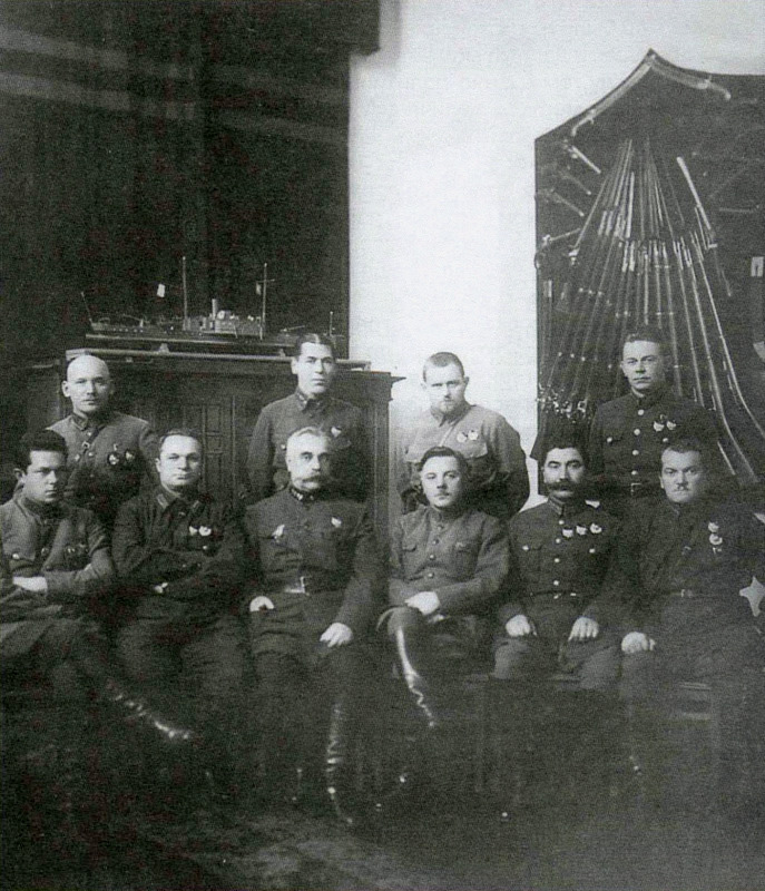 Members of REVVOENSOVIET USSR (Militar Revolutionary Conuncil) and other Soviet military commanders. Down, from left to right: I. Yakir, A. Egorov, S. Kamenev, K. Voroshilov, S. Budenny, M. Levandovsky. Behind: K Abksentevsky, B. Shaposhinikov, I. Belov, I. Uborevich. December 1927